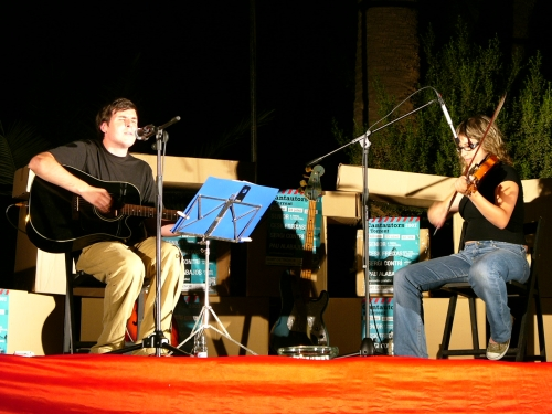 Pau Alabajos & fiddler Laura Navarro performing live, open air, in Torrent